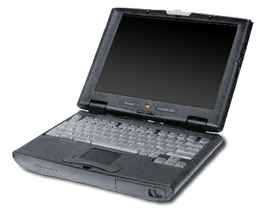 An Apple PowerBook 2400c.